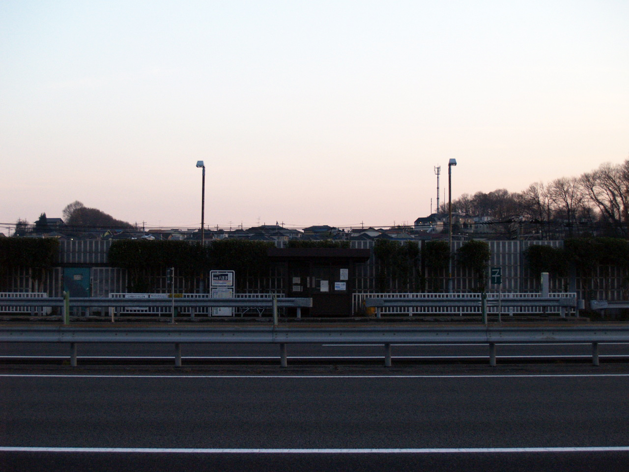 Chūō Expressway Motohachiōji Bus Stop